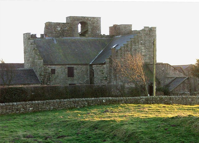 Crawley Tower Built around 1300 as either a tower house or solar house added on to a hall or house. The forerunner of the modern conservatory perhaps!